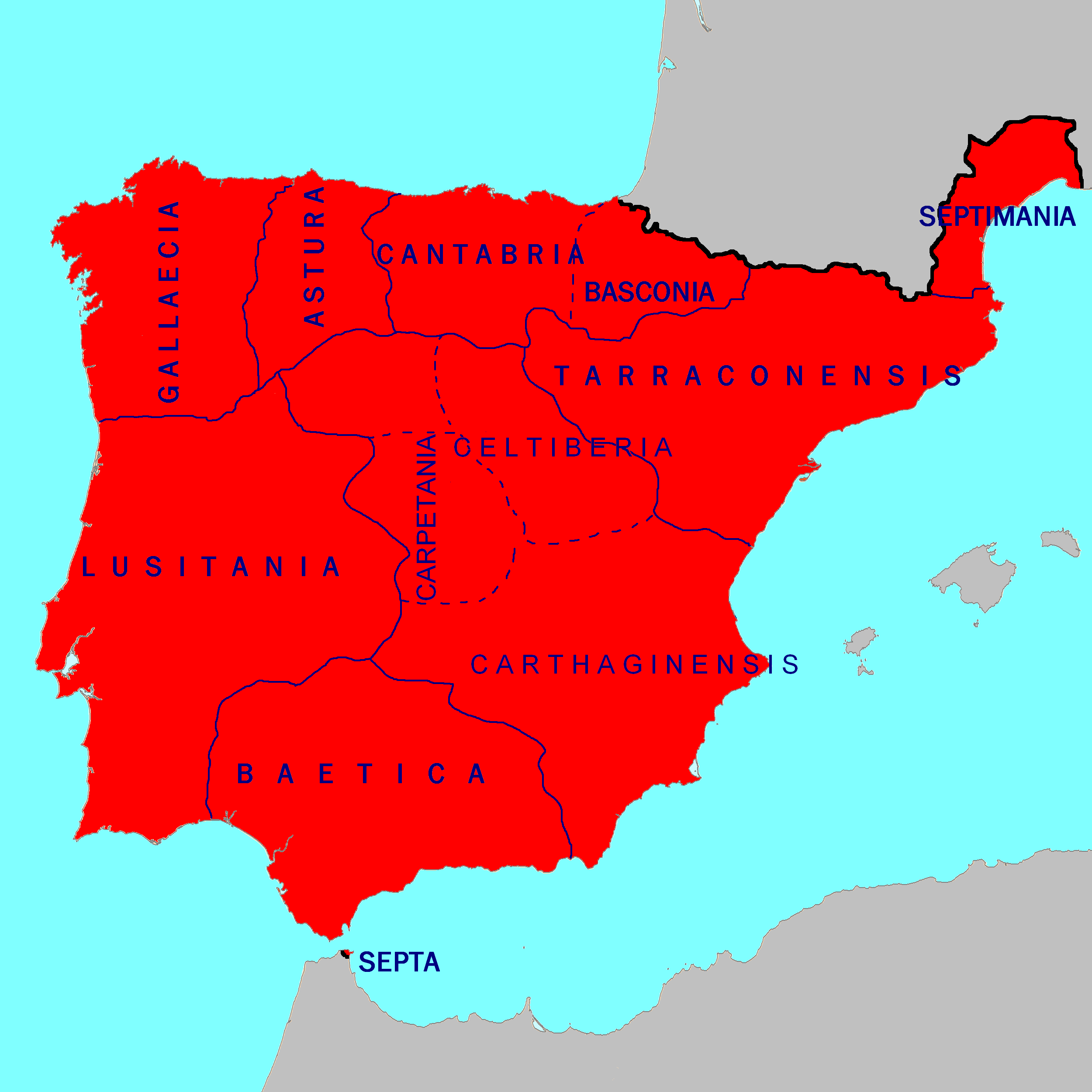 Provinces of Visigothic Spain in 700AD